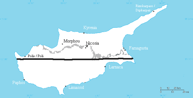 Fazıl Küçük's plan to divide Cyprus from the 35th parallel in 1957, with Turkish north and Greek south, compared with today's Green Line.